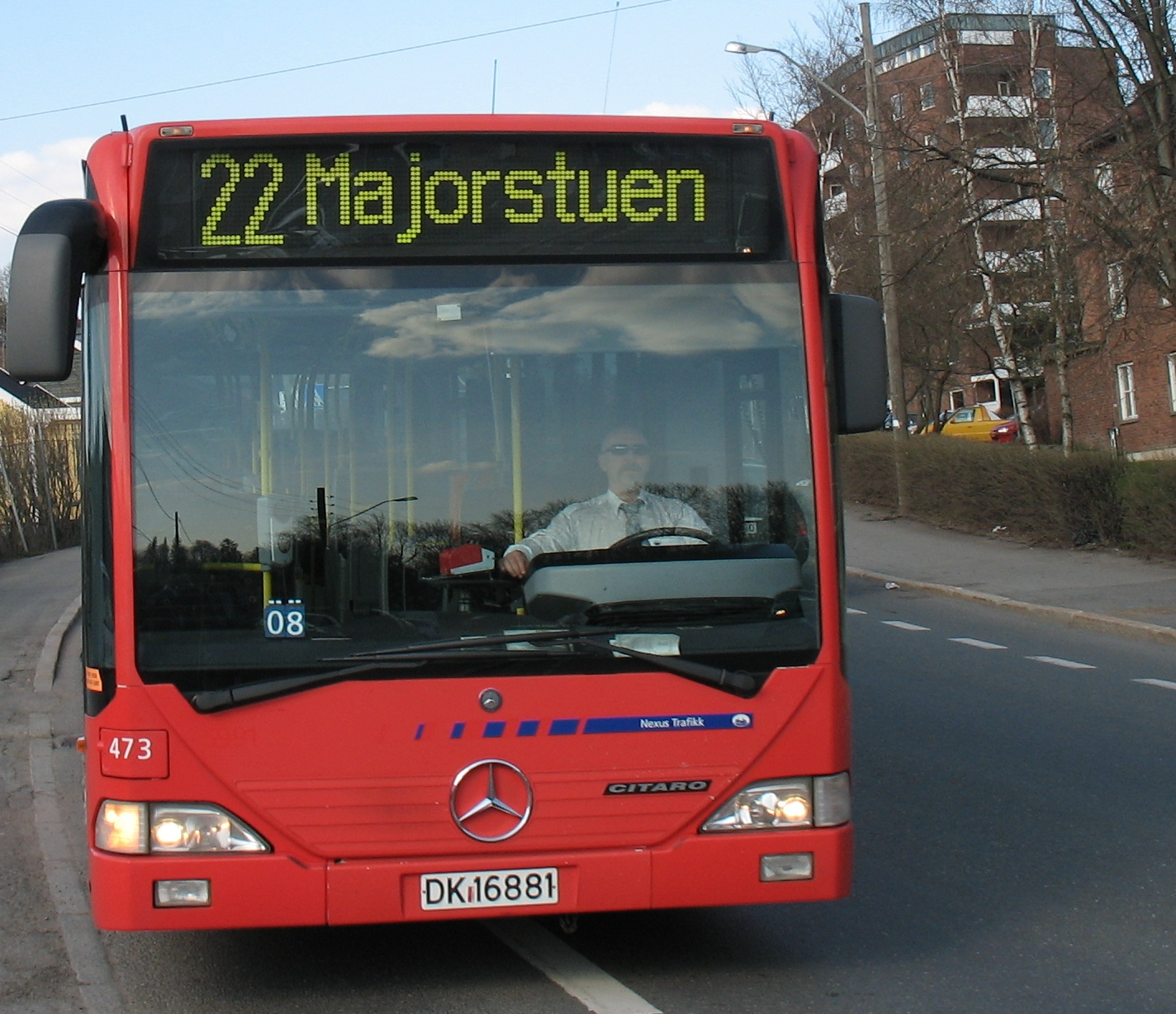 Oslo city bus.